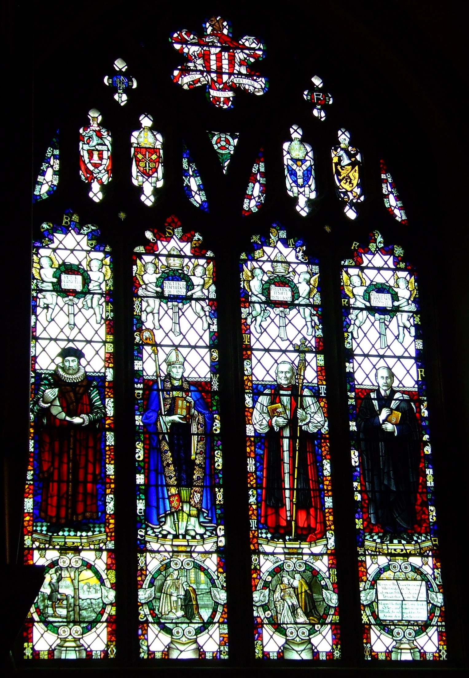 The main stained glass window in Blundell's chapel.